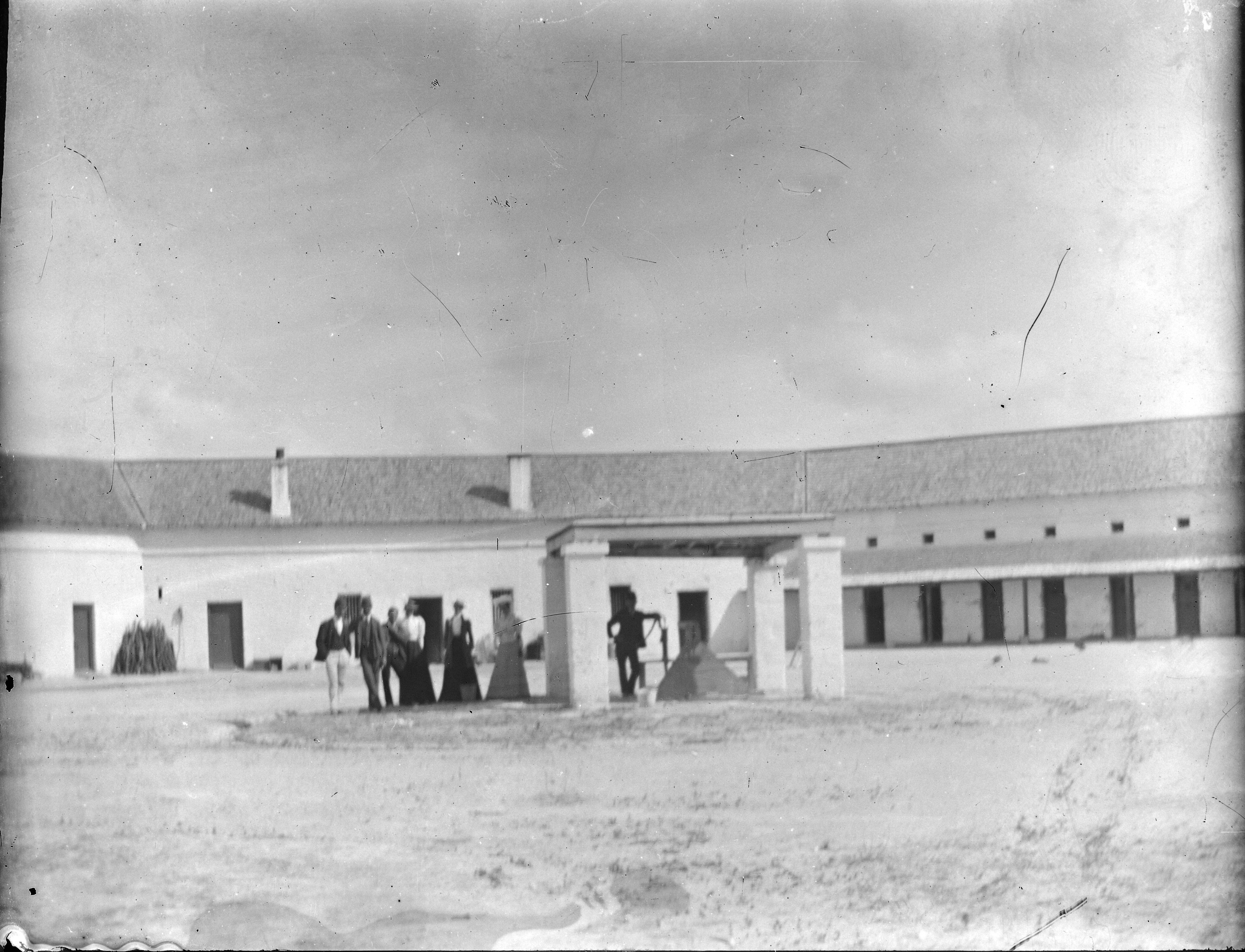 Rottnest Prison ("Quod"), Western Australia. c.1900-1910